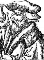 Andreas Aurifaber, medicus regiomontanus.